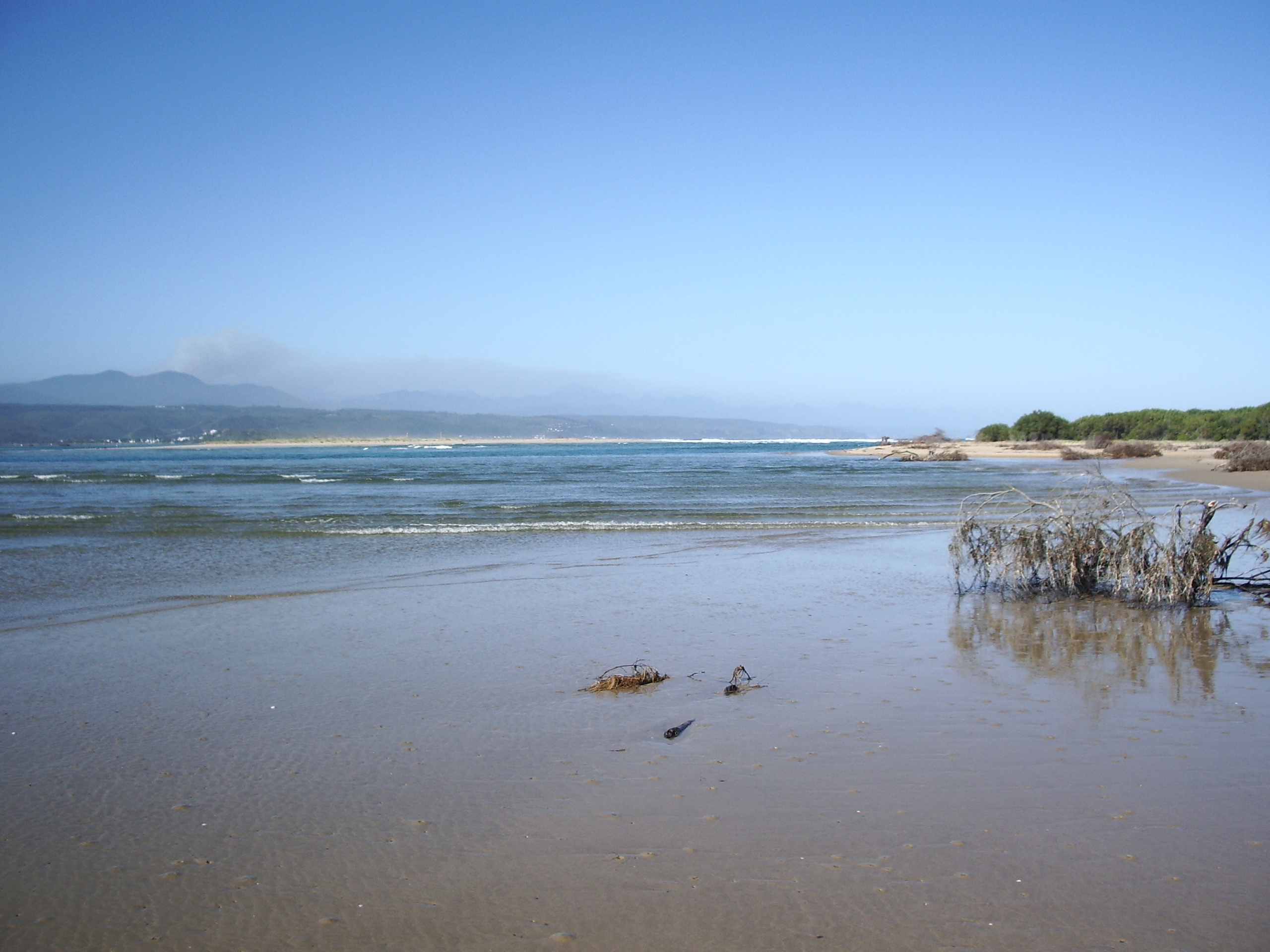 The view from the Keurbooms River estuary near Plettenberg Bay